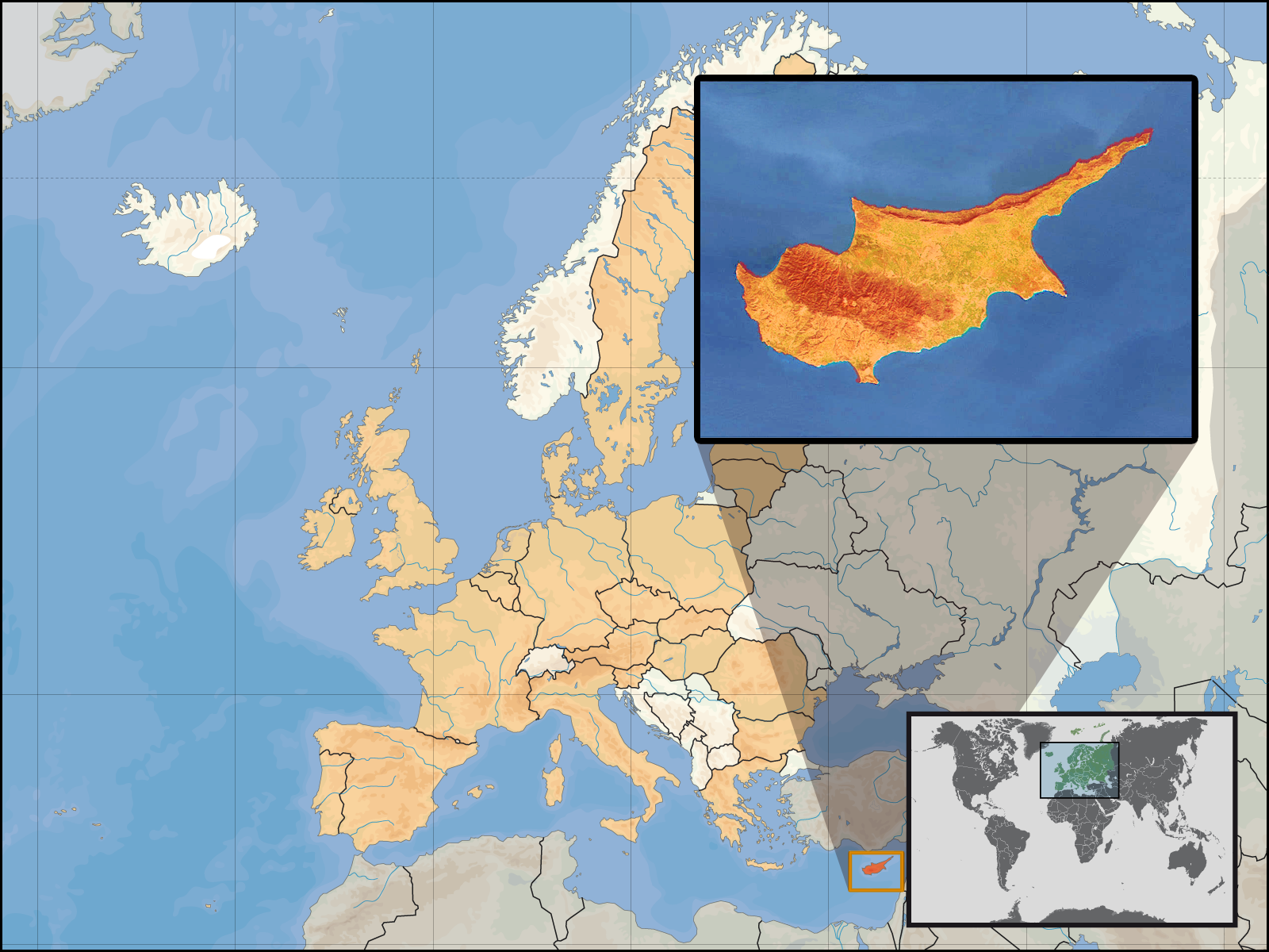 Location of Cyprus within Europe and the European Union on the 1st of January 2007.